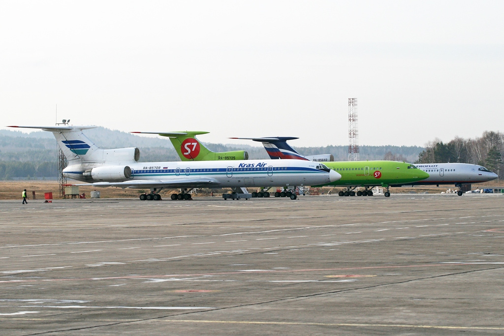 End of big civil Tupolev time. RA-85725 S7 and RA-85642 Aeroflot behind.